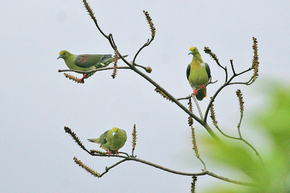 Wedge-tailed Green Pigeon (Treron sphenurus). Samdrup Jongkhar to Rekhay, Bhutan